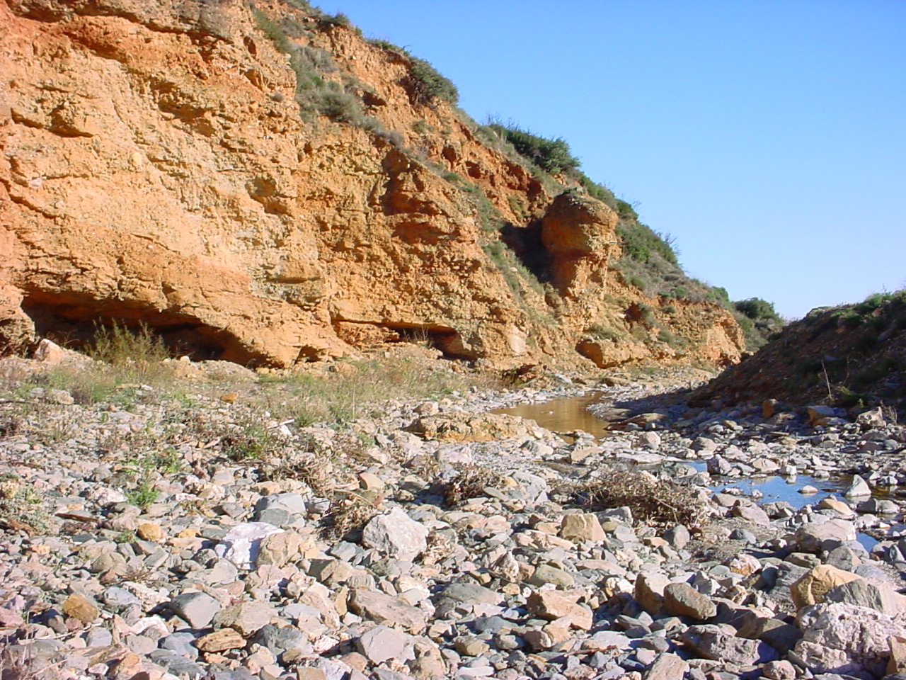 Réart river (France)